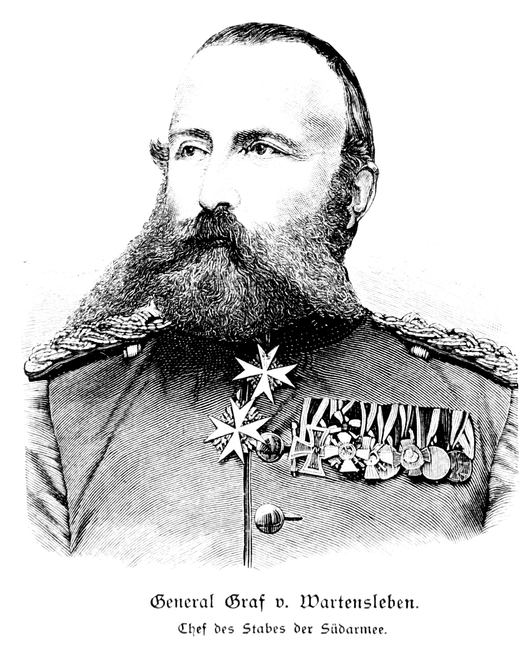 general earl von Wartensleben